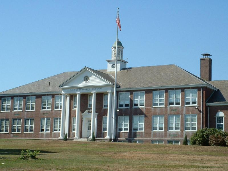 Somerset High School, Somerset, Mass. Built 1937. This building was demolished 2014 and soccer fields were built in its location. A very similar building was constructed in 2014, next to the old building.